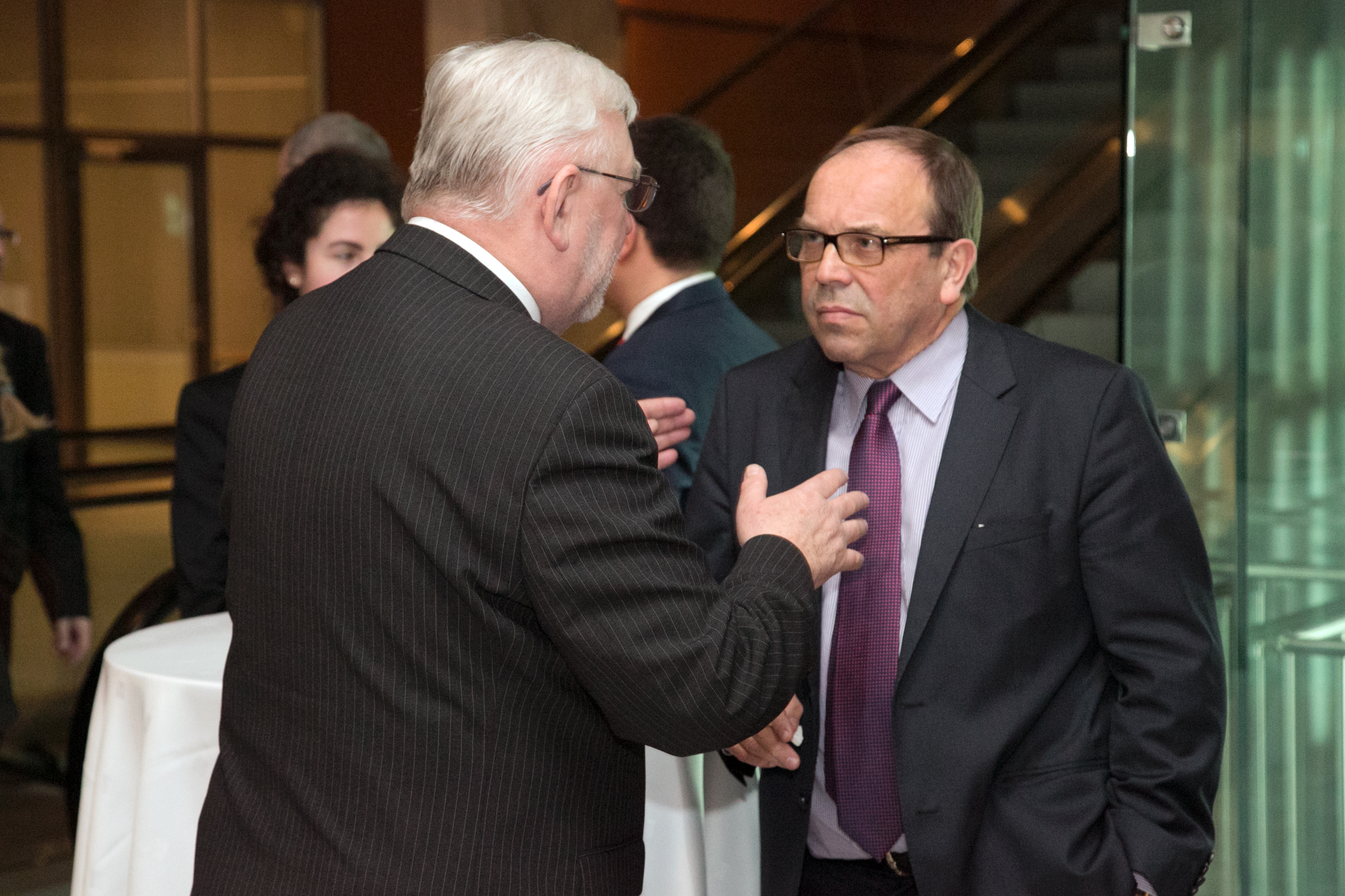 Jerzy Stepień and Mieczysław Groszek at the unveiling ceremony Marek Belka - Galeria Chwały Polskiej Ekonomii, March 6th, 2014 at Warsaw Stok Exchange